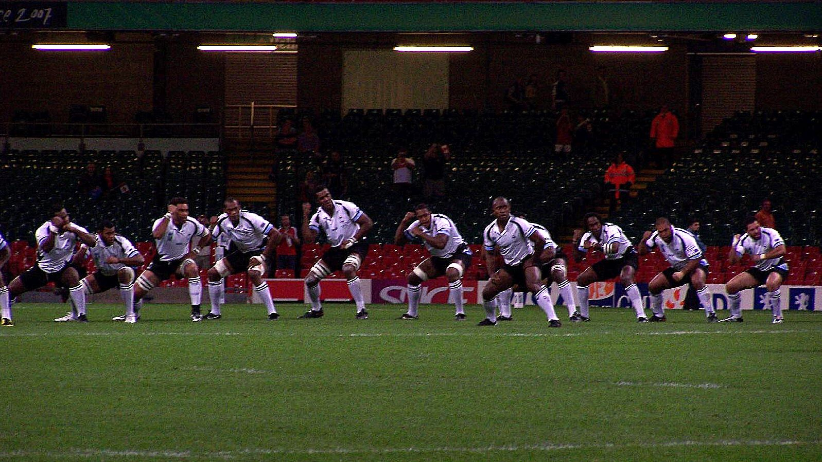 Fijan Cibi before 07 RWC match against Canada